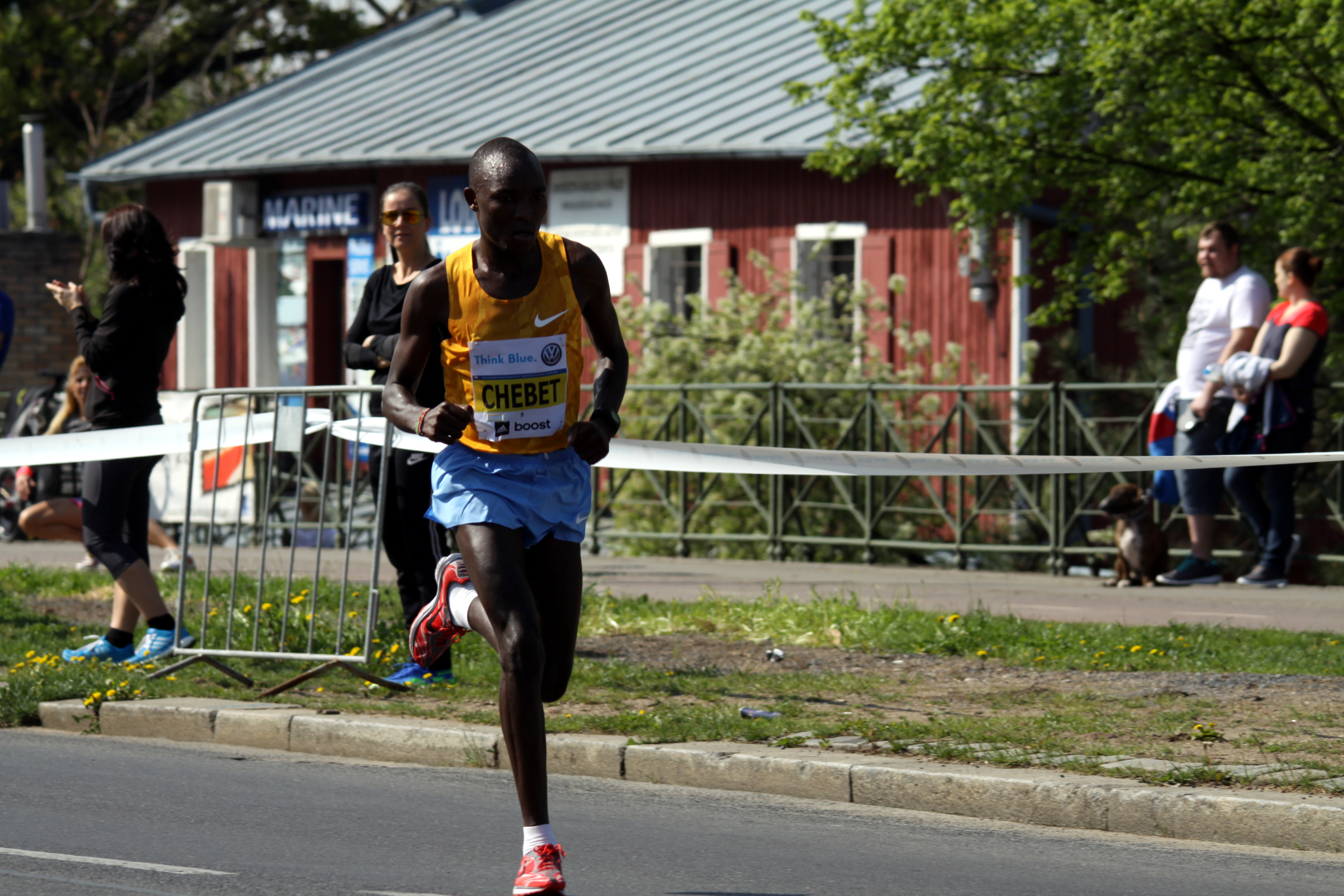 Prague International Marathon in 2015, Czech Republic